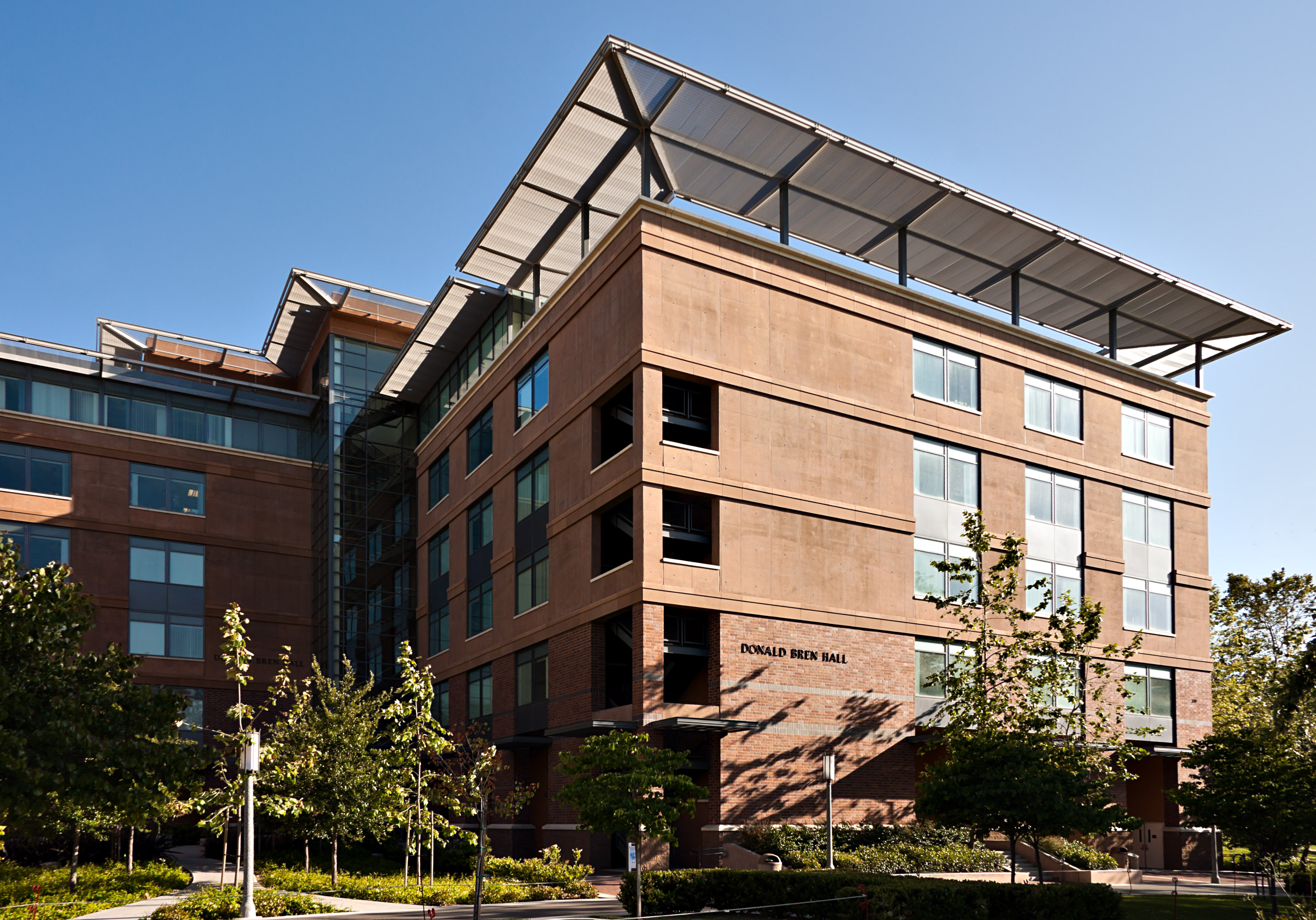 Donald Bren Hall, the home of the Donald Bren School of Information and Computer Sciences at the University of California, Irvine.